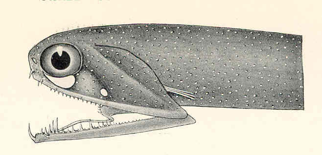 Head of a Malacosteus, from the Andaman Sea, 650 fathoms; showing the enormous mouth and formidable dentition, and luminous organs, large and small... . Subject: Malacosteus, Loosejaws Tag: Fish